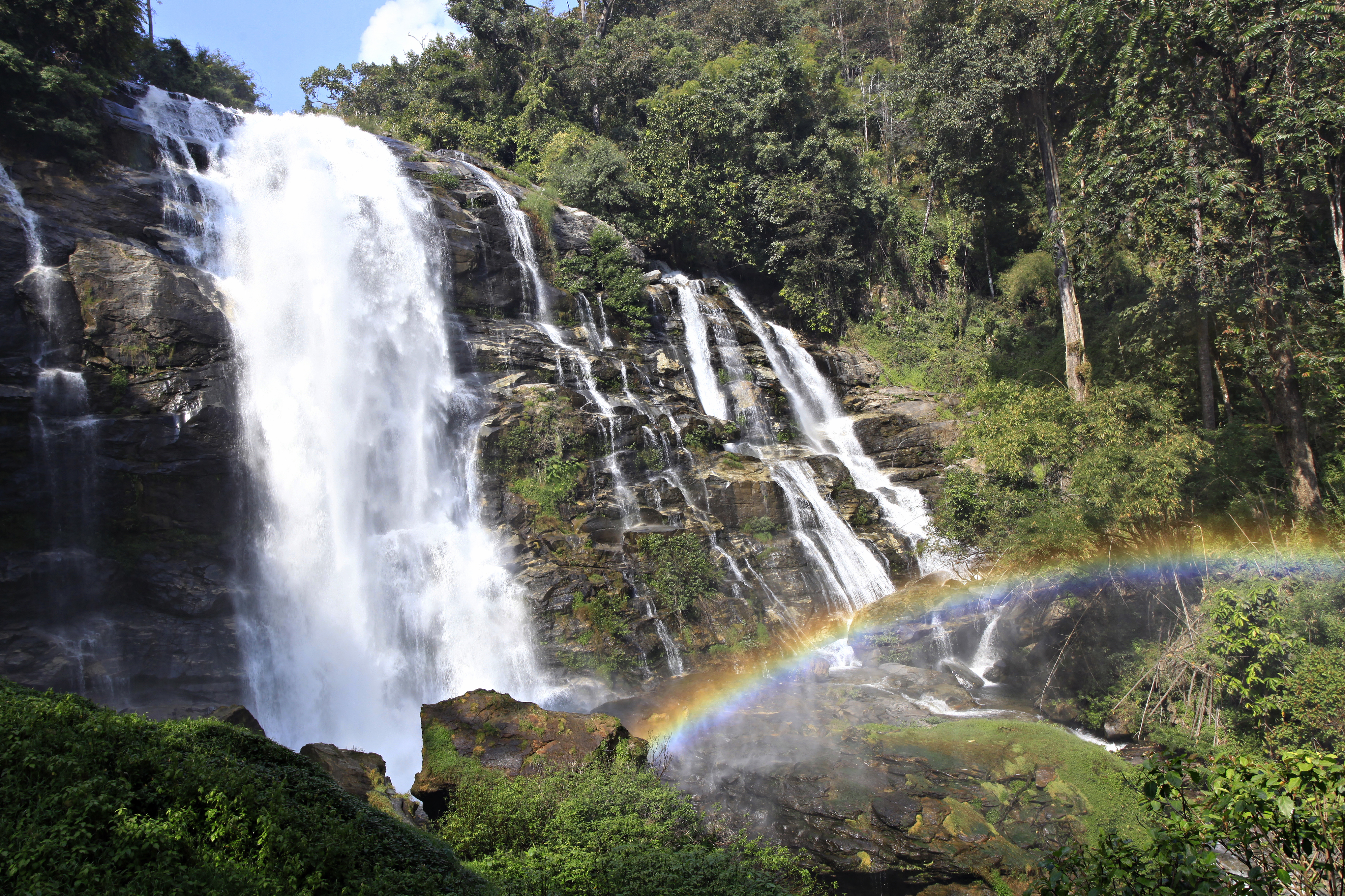 Wachirathan Falls, Doi Inthanon National Park, Chiang Mai Province